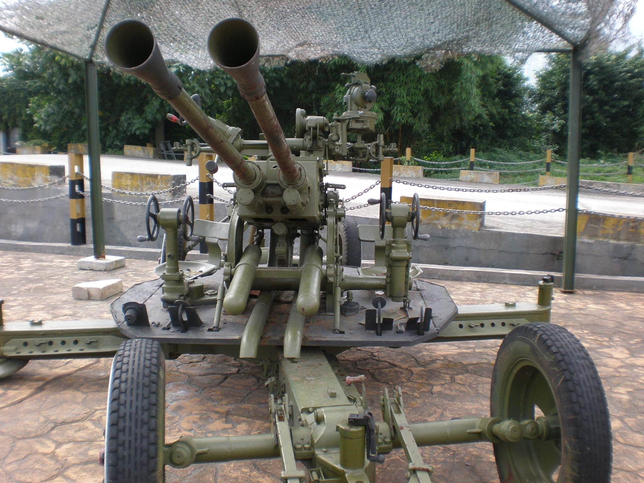 A Type 65 37 mm AA gun, a Chinese variant of the Soviet 37 mm automatic air defense gun M1939 (61-K), on display at the Minsk World military theme park in Shenzhen, China. The former Soviet aircraft carrier Minsk is the centerpiece of Minsk World.